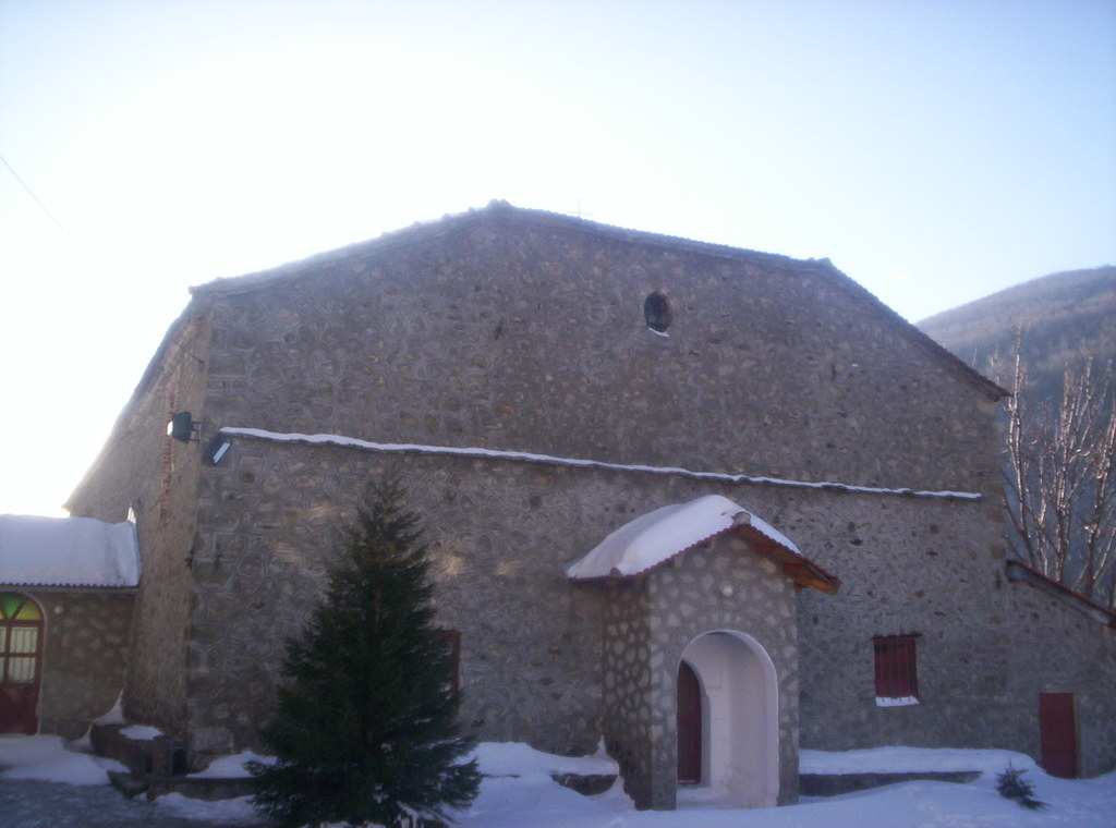 Church of Pisoderi, Aegean Macedonia, Greece